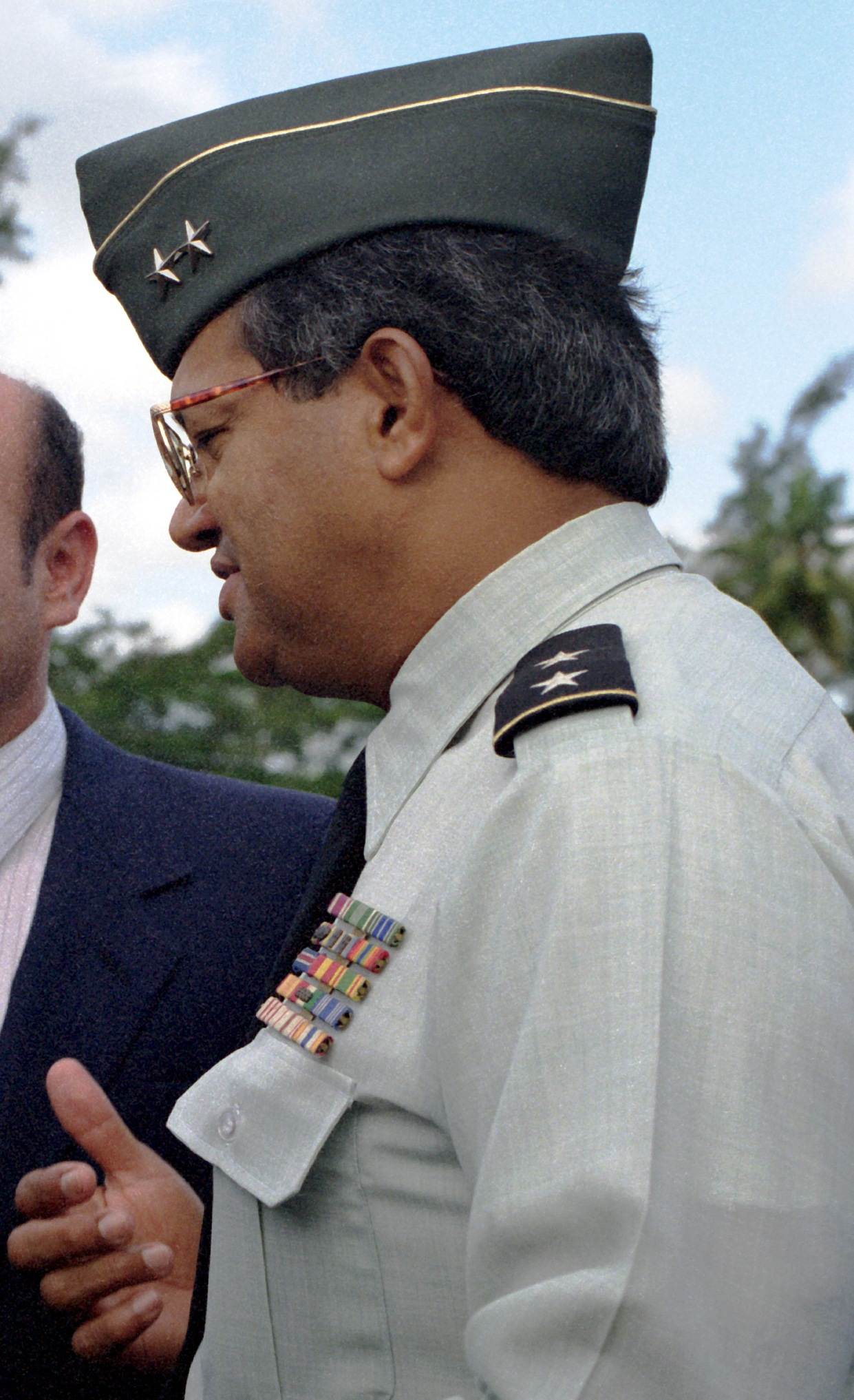 Major General Miranda Marin, cropped from Colonel Montie T.S. Hess, Fort Buchanan Commander, passes during change of command ceremonies to have an informal talk with the Mayor of San Juan, the Honorable Hector Luis Acevedo and the Puerto Rico Adjuntant General, Major General Miranda Marin. Location: Fort Buchanan Virin.